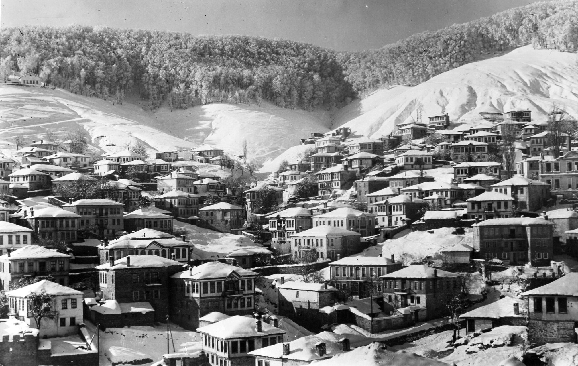 Kruševo, photo from 1930's This media file is produced by Wikipedian in Residence in Category:Wikipedian in Residence at DARM in 2016.